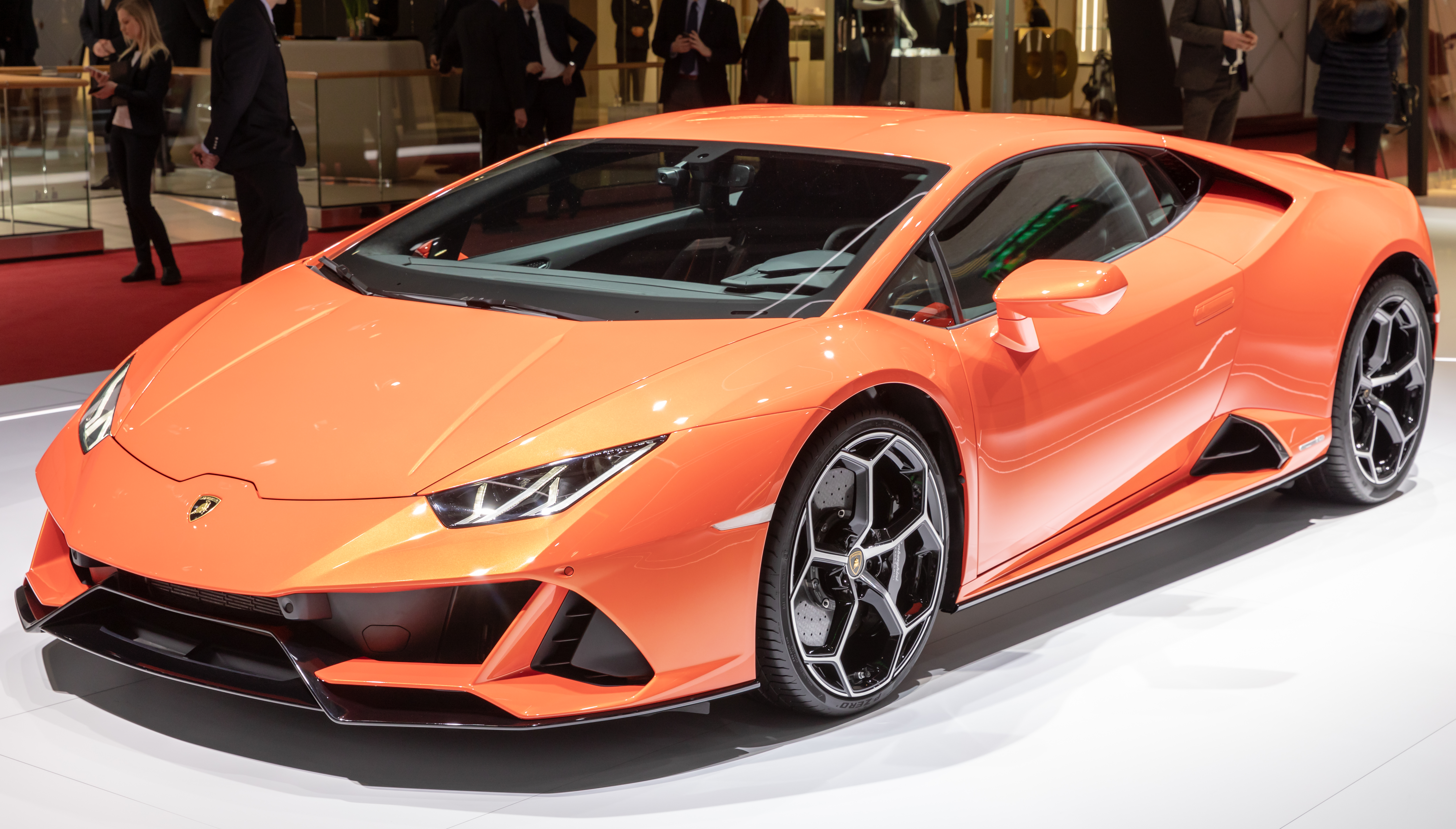 Lamborghini Huracan Evo at Geneva International Motor Show 2019, Le Grand-Saconnex